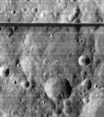 Brenner is the large eroded feature. The 32-km crater straddling its south rim is Brenner A.